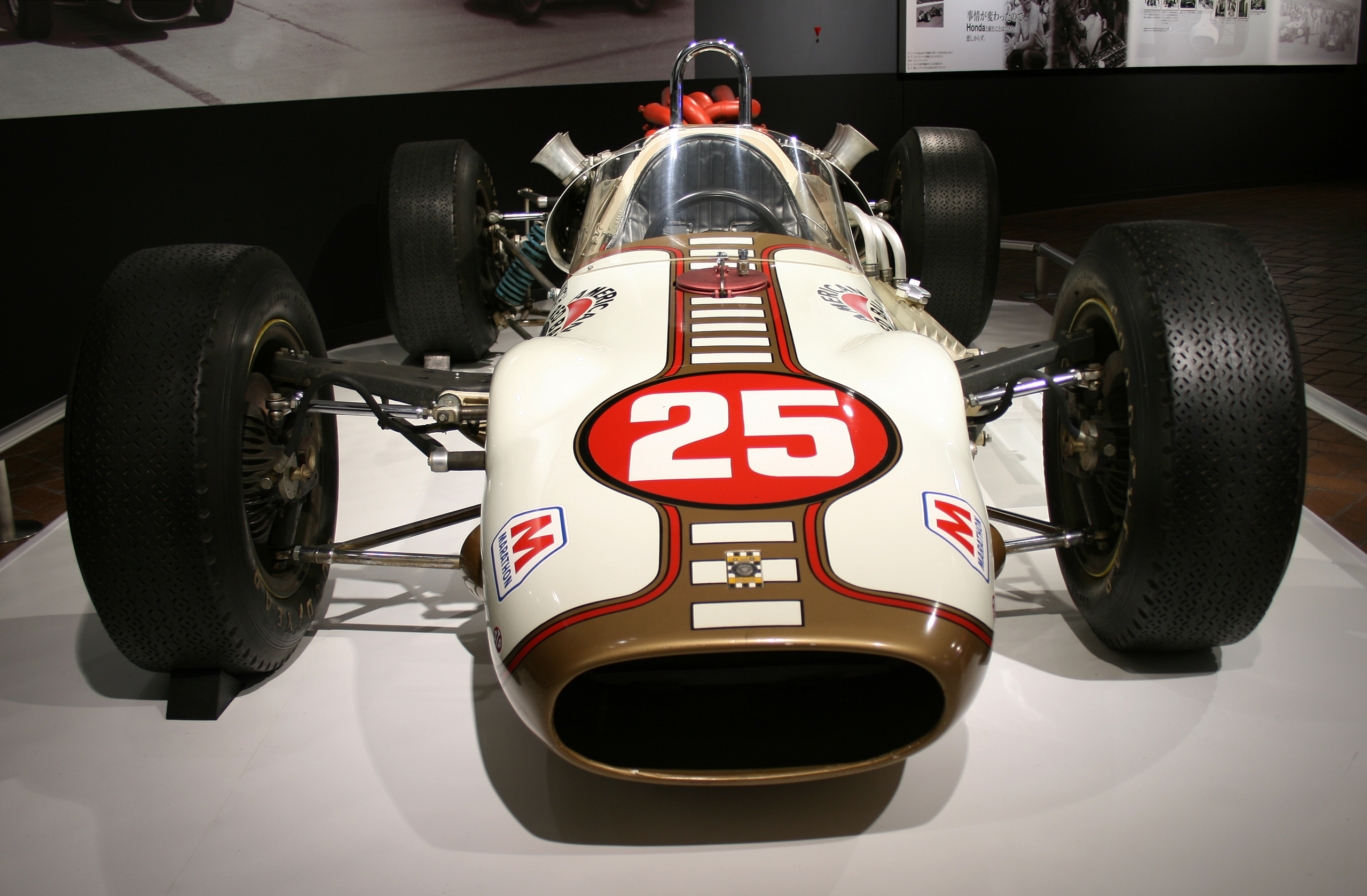 A restored Eddie Sachs's Heilbrand-Ford "American Red Ball Special" for the 1964 Indianapolis 500. The lengths of right and left suspension arm are different for the IMS's banked corner.